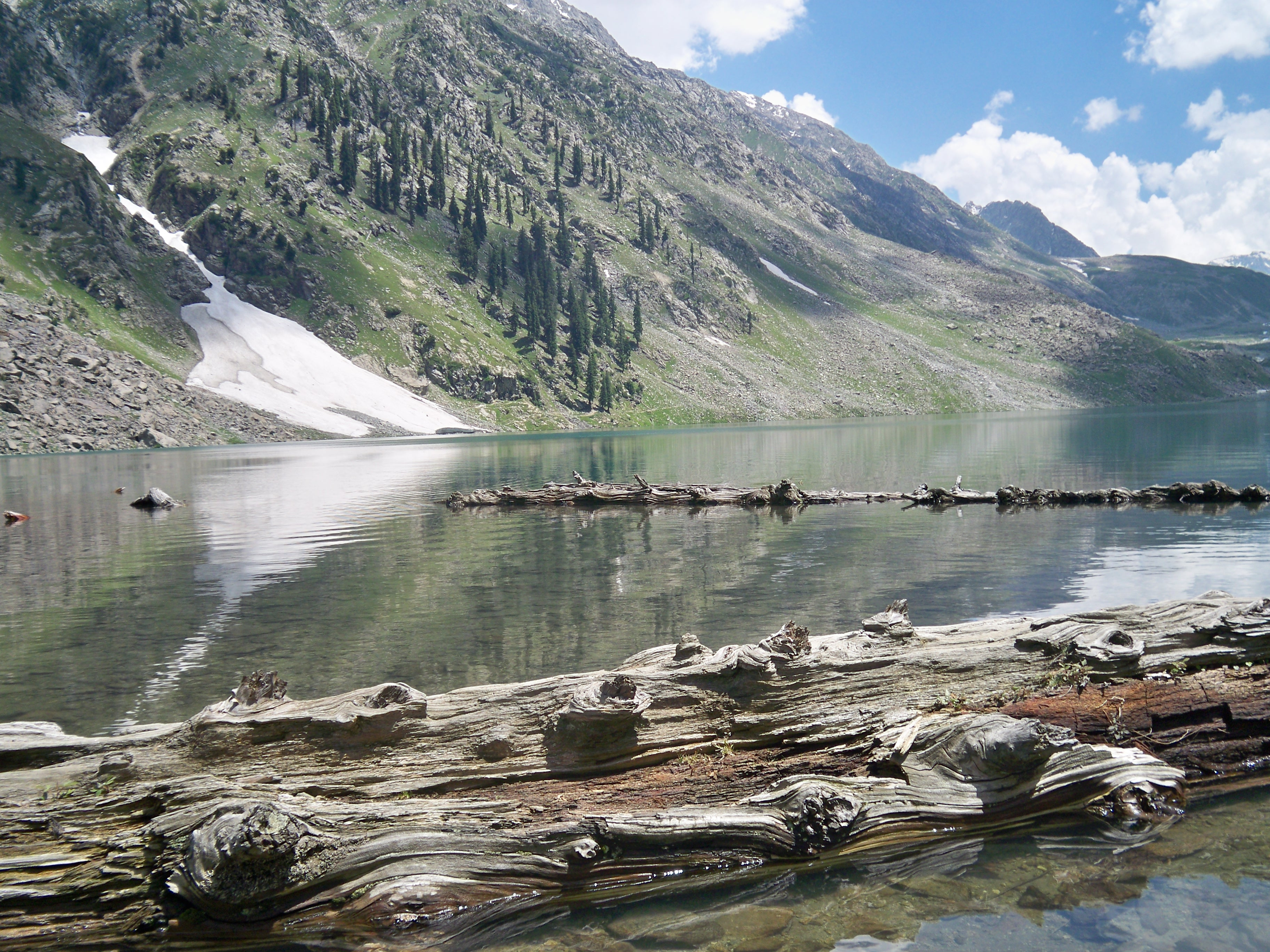 Kundol Lake, Swat Valley, Pakistan